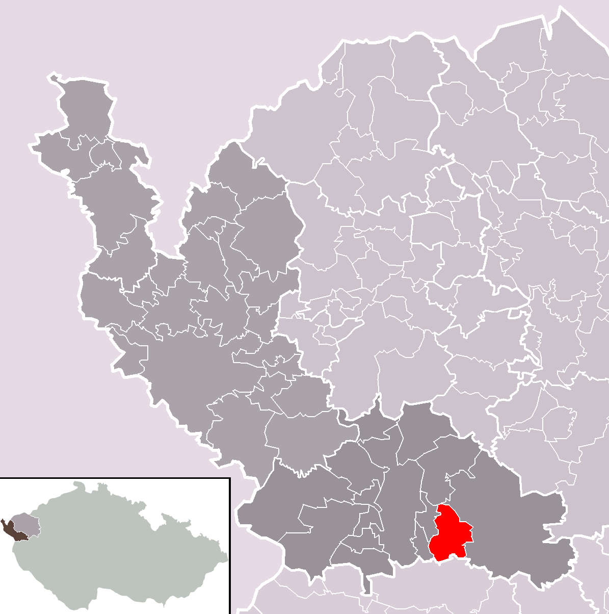 Location of Ovesné Kladruby municipality within Cheb District and administrative area of Mariánské Lázně as a Municipality with Extended Competence.